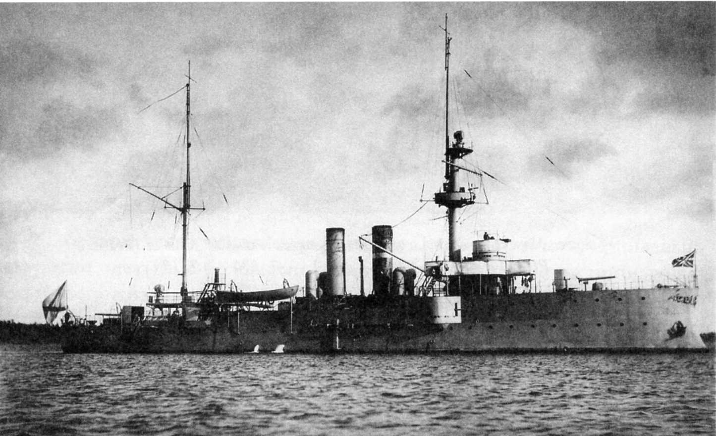 Imperial Russian gunboat Koreets (II).